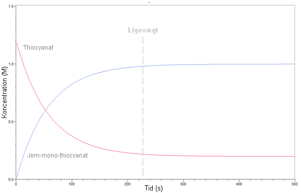 Chemical equilibrium